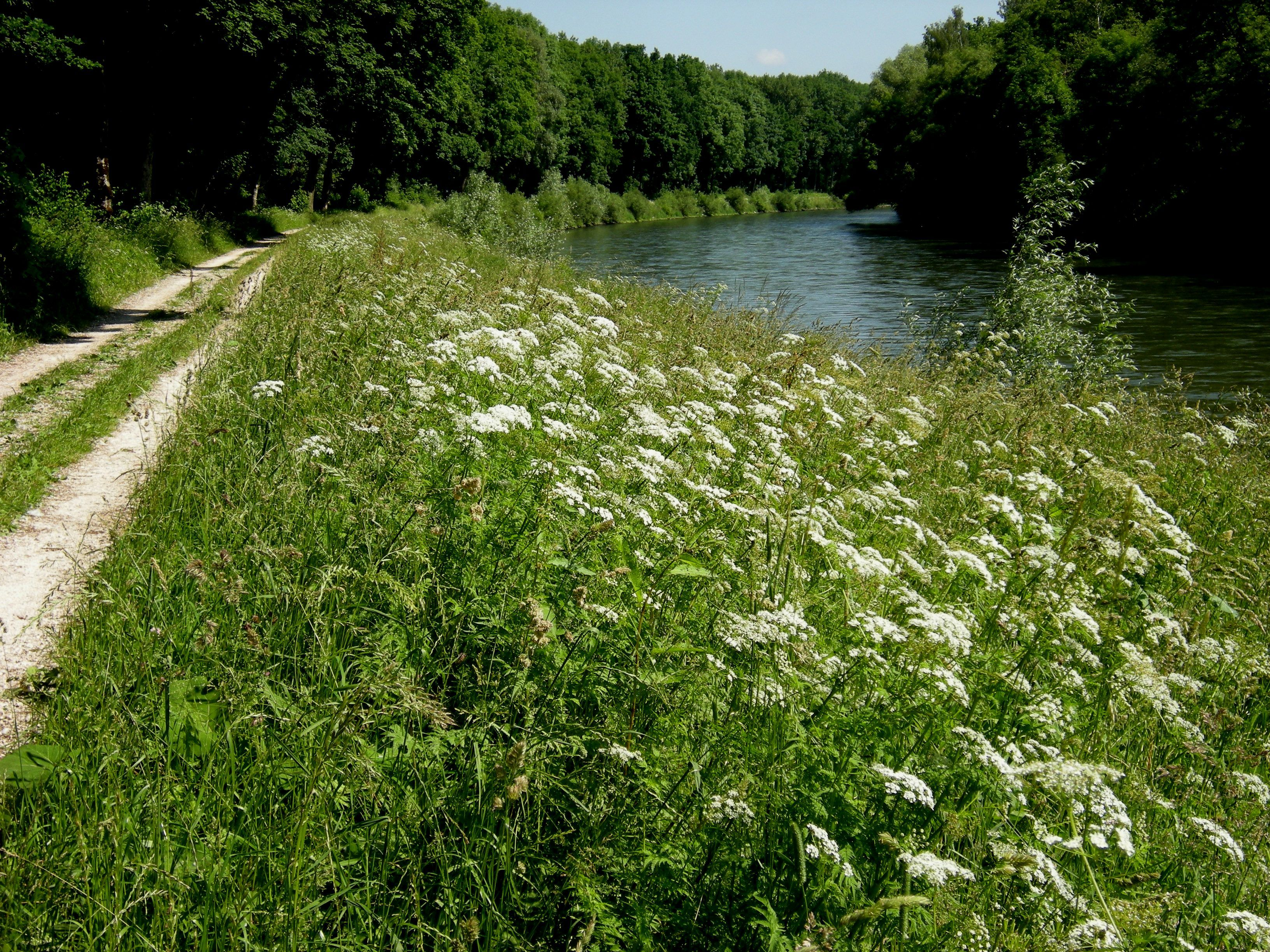 Bicycle- and hiking-route along the bank of the Iller near Illerkirchberg